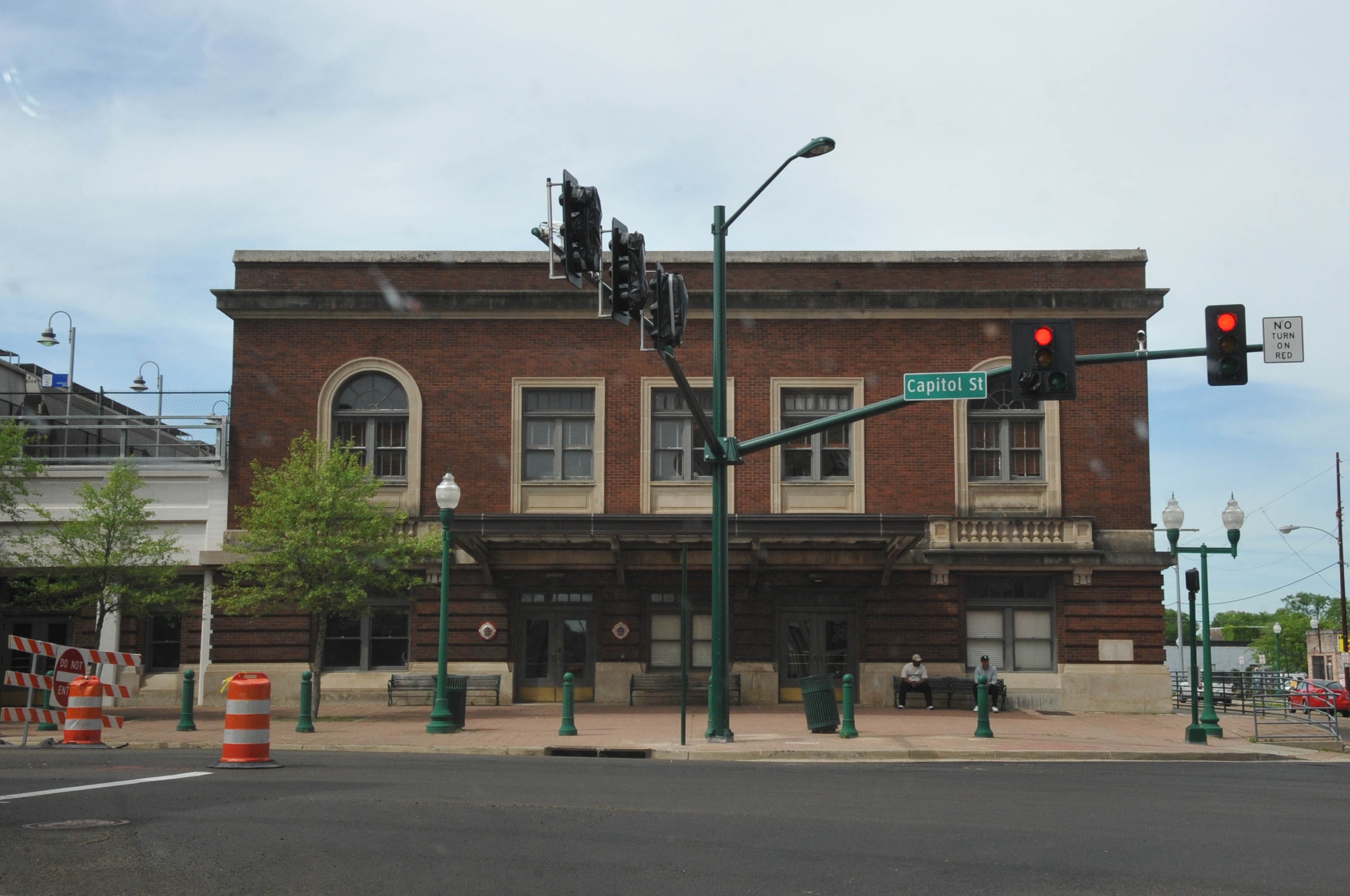 BUILT IN 1927